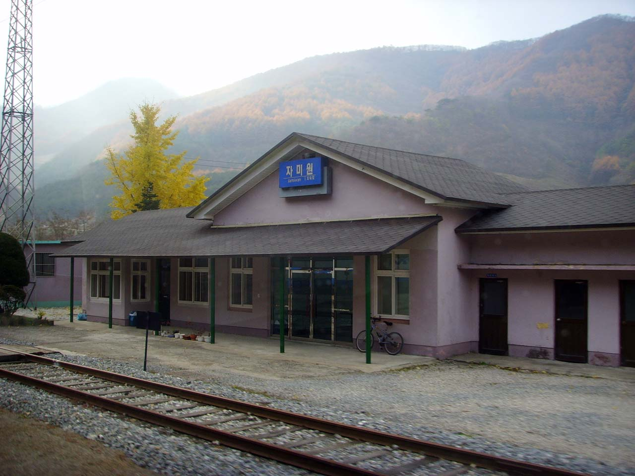 Taebaek Line Jamiwon Station